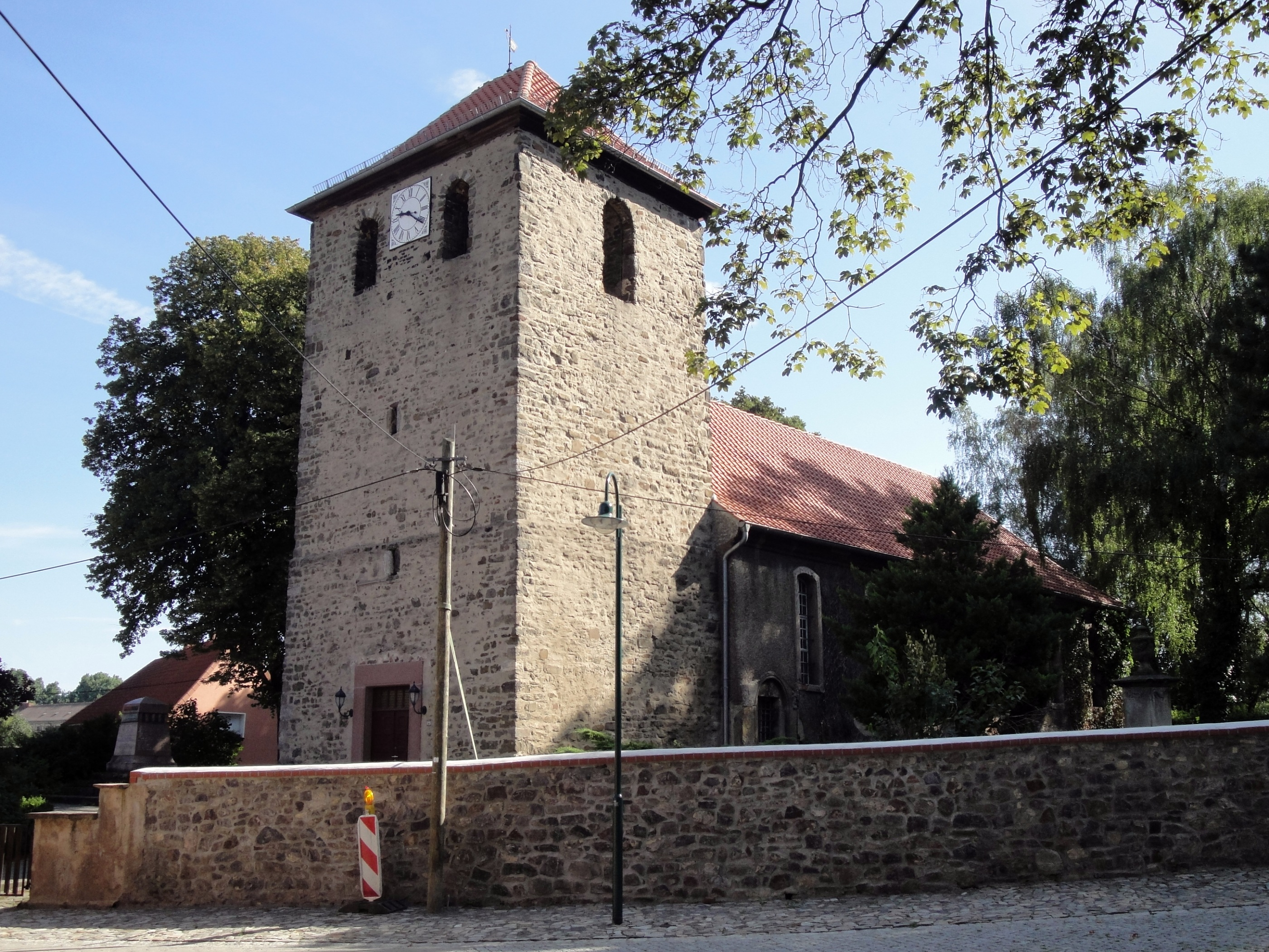 Protestant church in Schackensleben, Germany